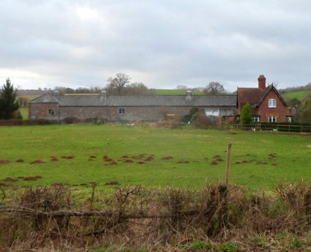 Rockfield Studios near Monmouth